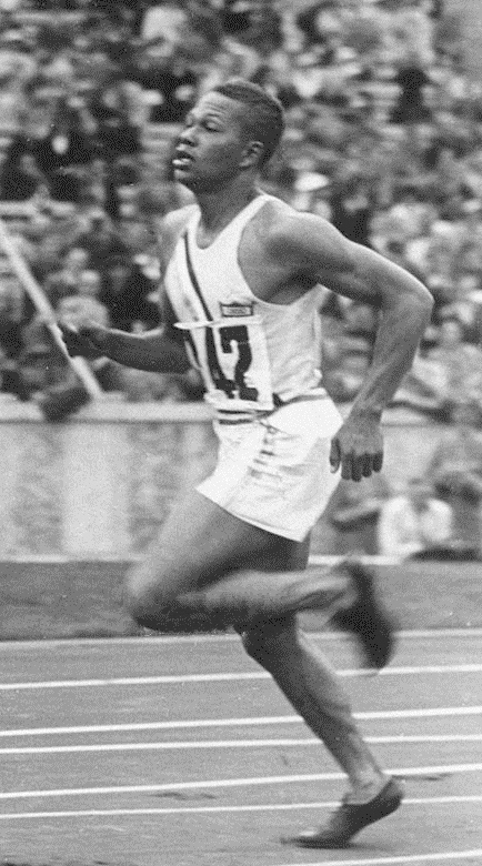 Archie Williams during the 400 metres event at the 1936 Olympic Games in Berlin.